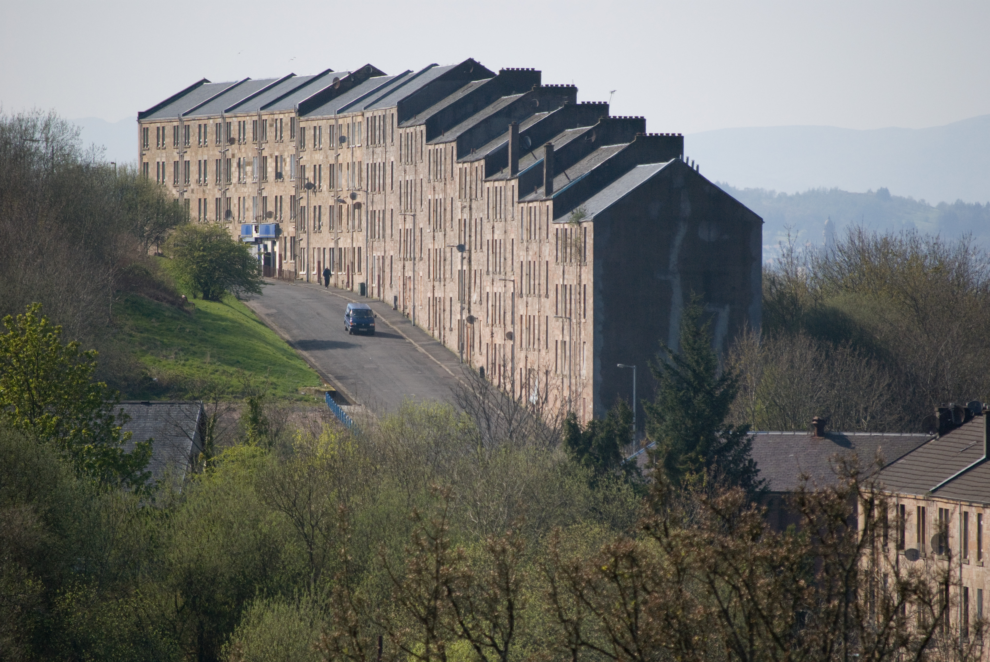 Tenements at Bouverie, Port Glasgow, shortly before their demolition in August 2014.